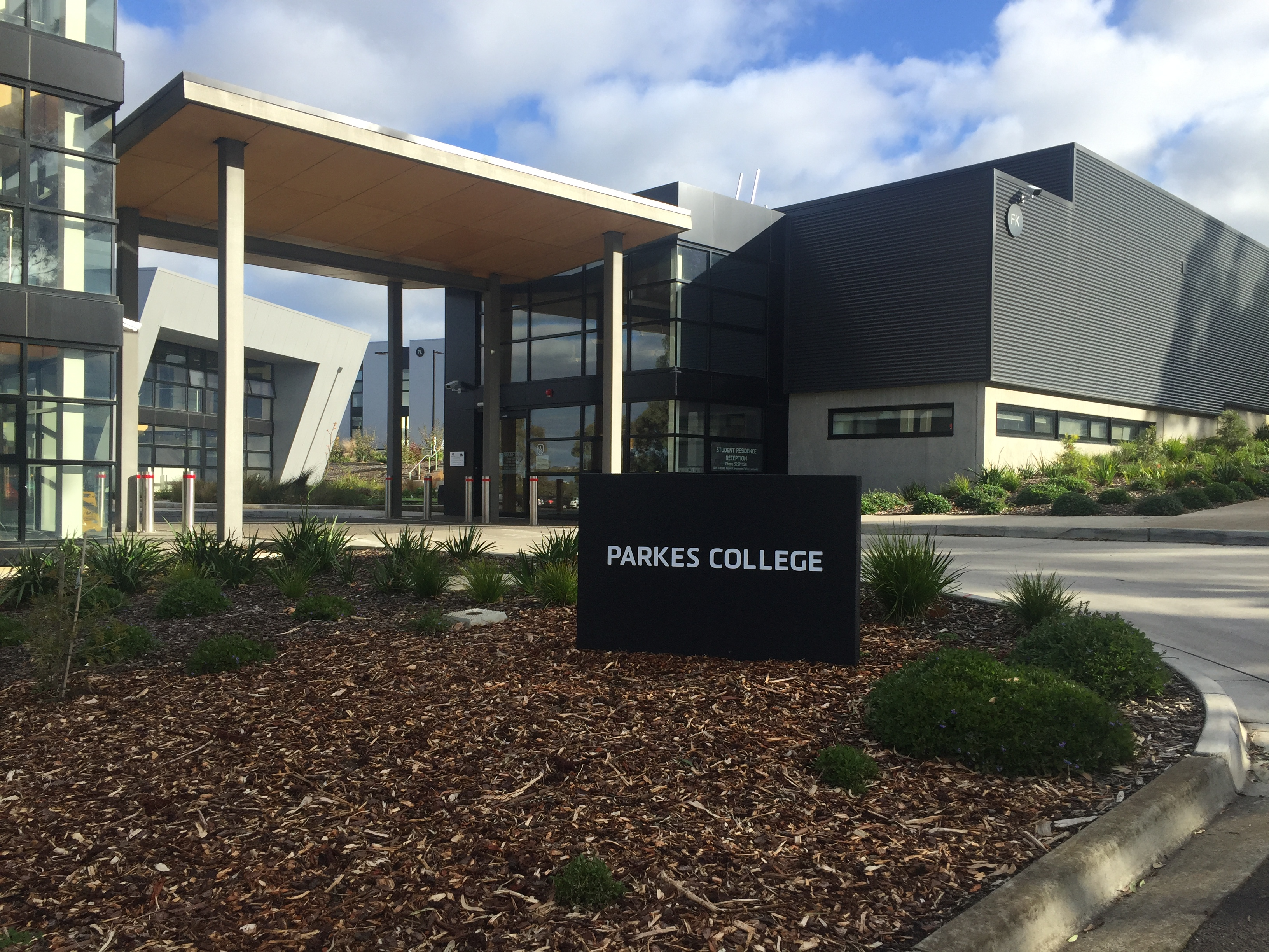 The front sign of Deakin University’s (in Waurn Ponds) residential college of Parkes.